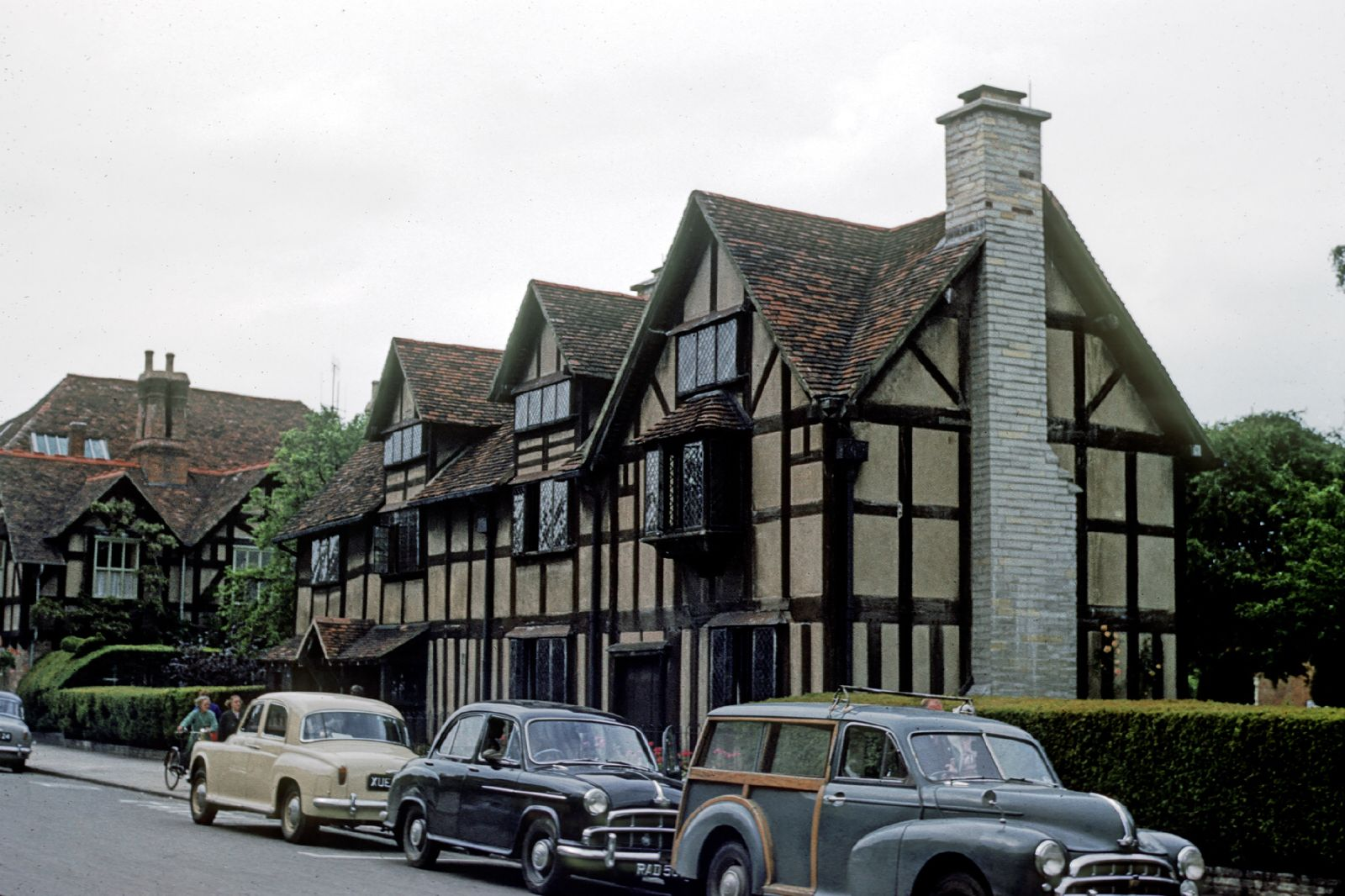 William Shakespeare's Birthplace, Stratford-upon-Avon, Warwickshire, England. Photograph from the 1950s or 1960s before redevelopment of the street.